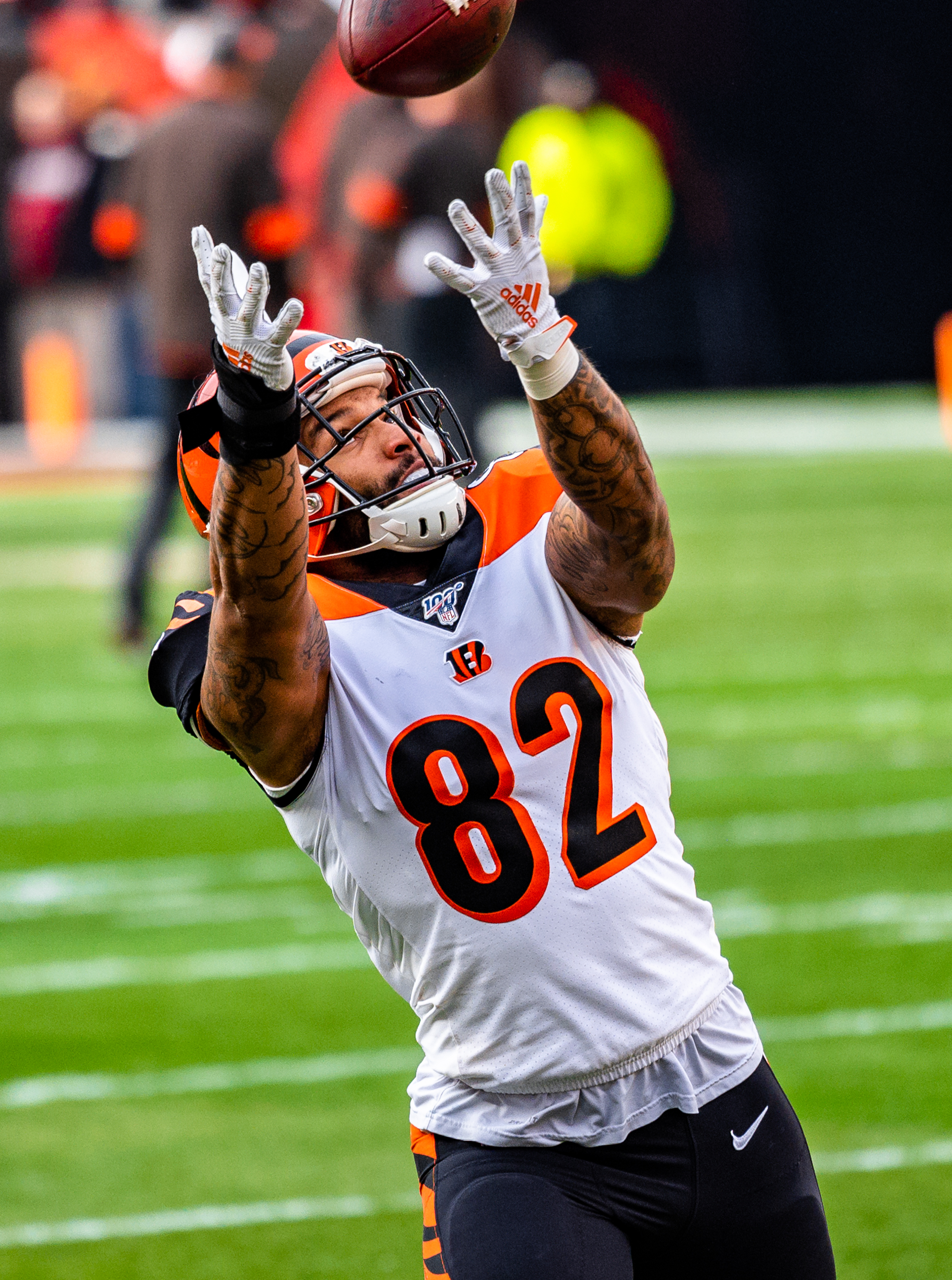 Cleveland Browns vs. Cincinnati Bengals